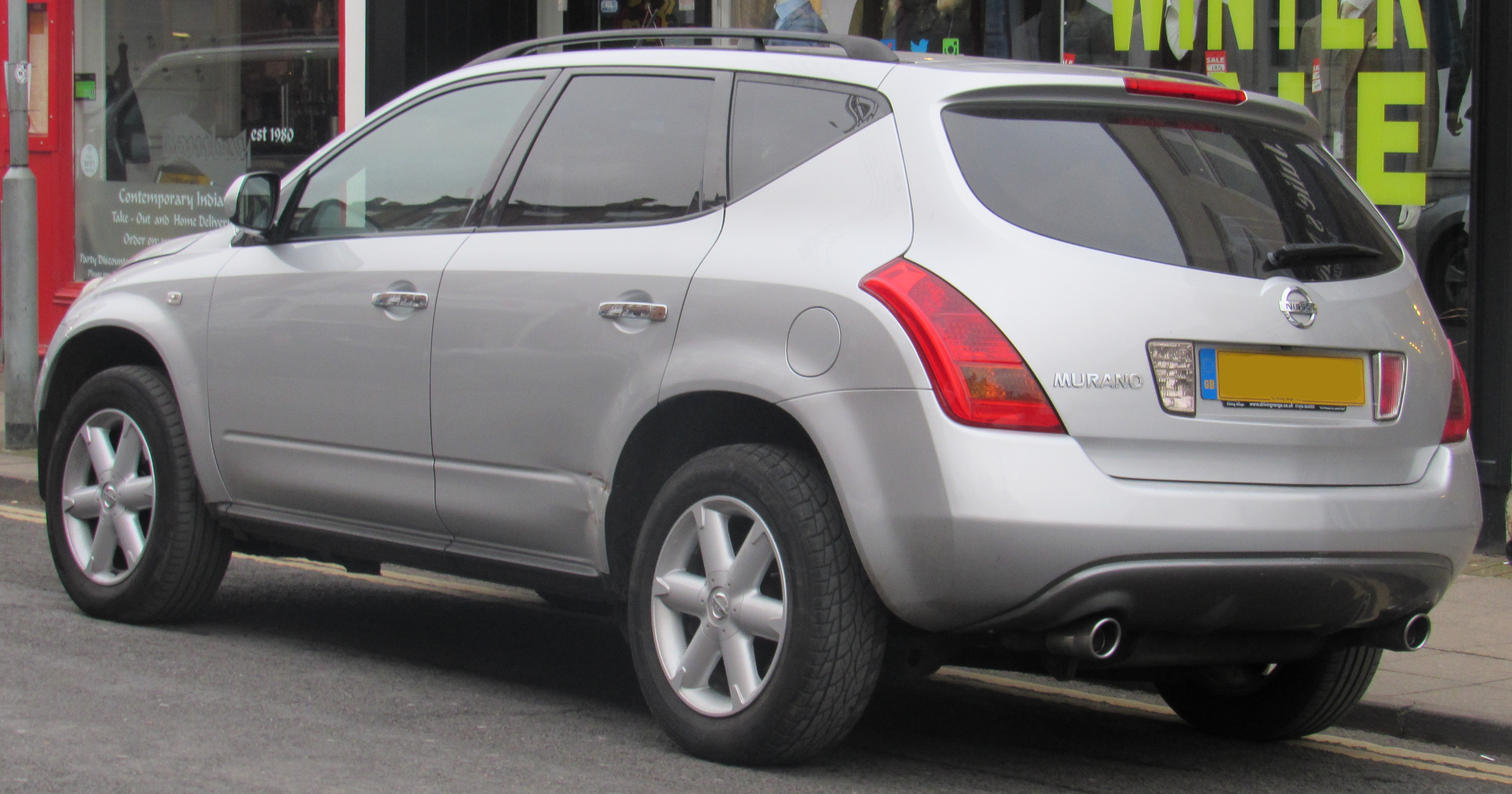 2009 Nissan Murano Automatic 3.5 Rear Taken in Leamington Spa